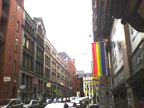 photo of rainbow flag on Lisbon buildings, Stanley Street, Liverpool's Gay Quarter